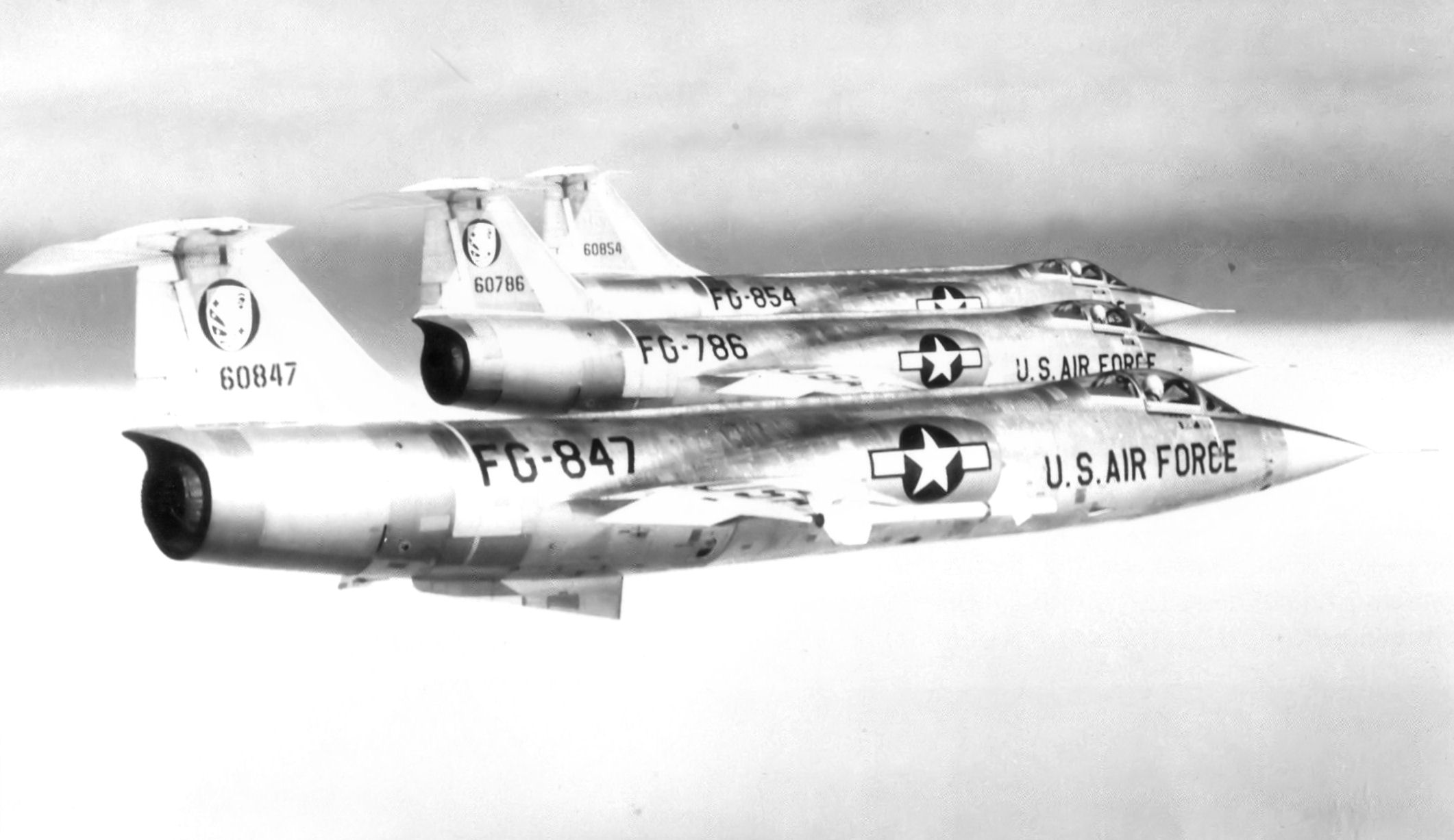 538th Fighter-Interceptor Squadron Lockheed F-104A Starfighters, Larson AFB, Washington, 1958. Visible are 56-847, 56-854 and 56-786. 847 crashed Feb 28, 1960 at Nellis AFB, NV due to engine failure. Pilot killed; 854 was sold to Taiwan; 786 to Taiwan as 4215, later to Jordan as 130401. Now registered in USA as N66328.